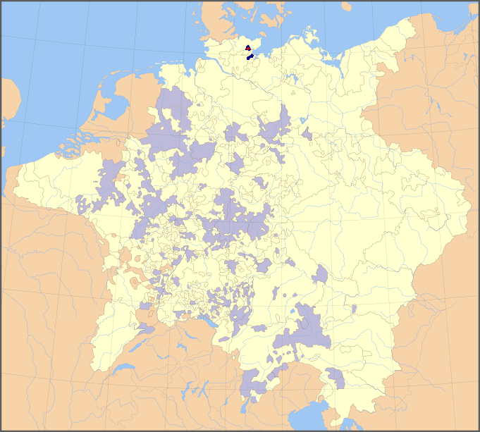 Map of the Holy Roman Empire, 1648, with the territories belonging to the prince-bishop of Lübeck highlighted